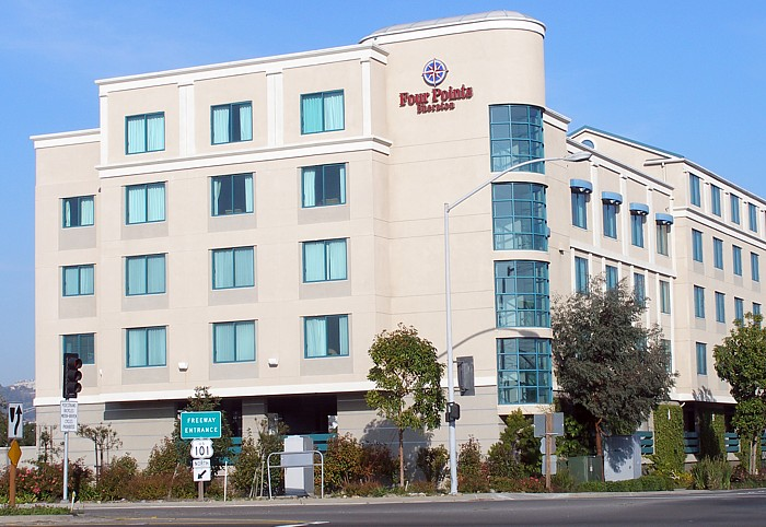 Summary A Four Points by Sheraton hotel in San Bruno, California, next to U.S. Highway 101. Photographed by user Coolcaesar on December 15, en:2005.